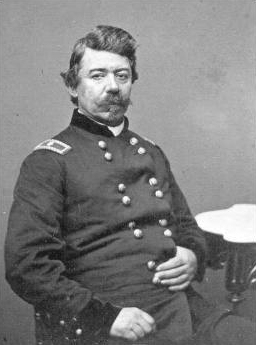 William High Keim, Union General. Source:[1]